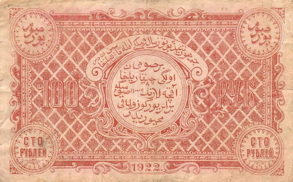 A banknote issued by the Bukharan People's Soviet Republic.